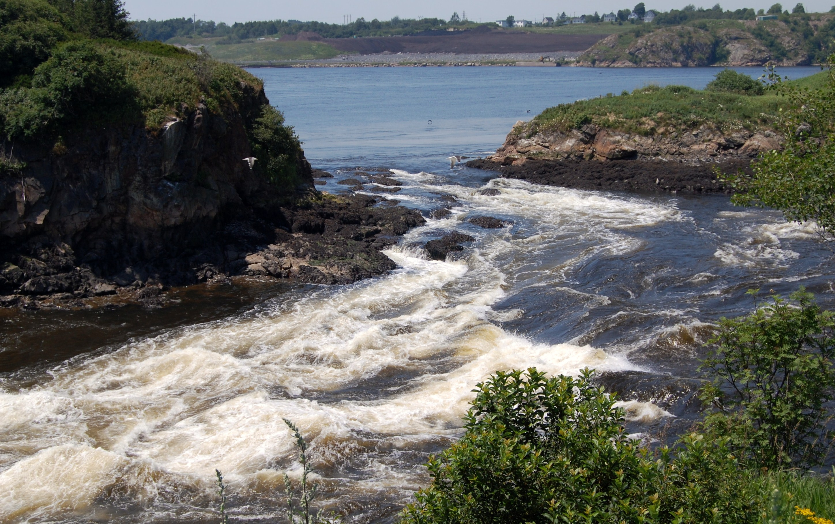 Reversing Falls at ebb between Crow Island and Middle Island